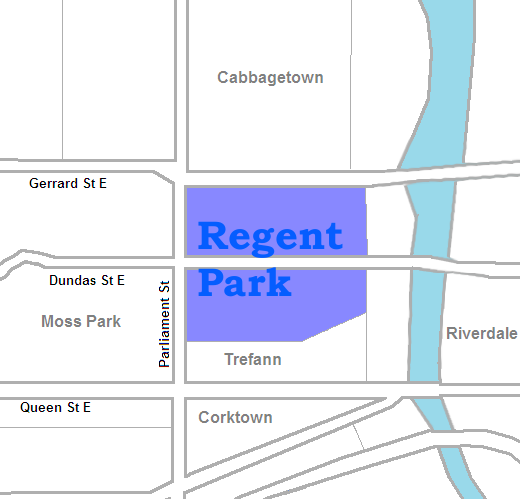 map of Regent Park